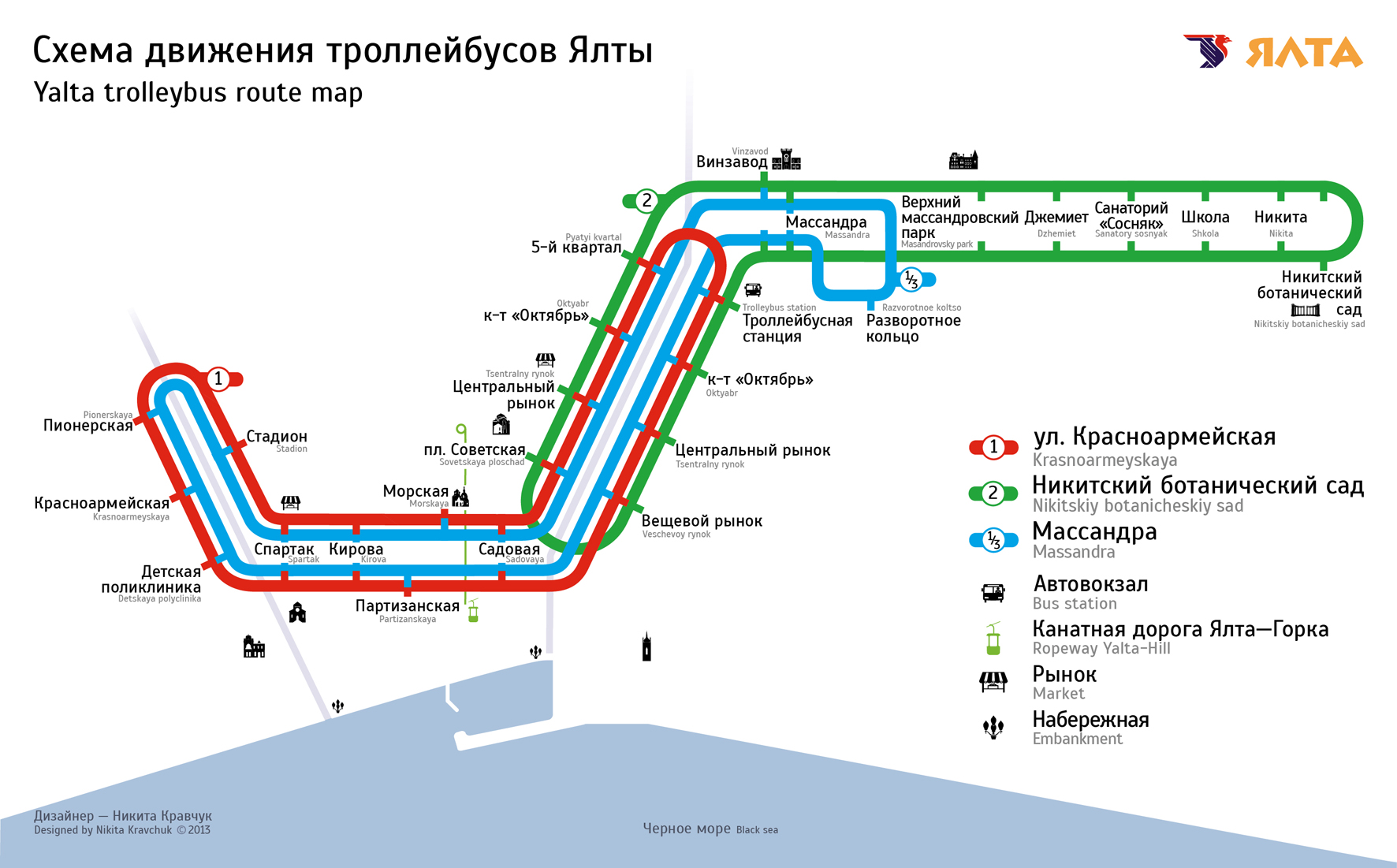 Trolleybus route map in Yalta